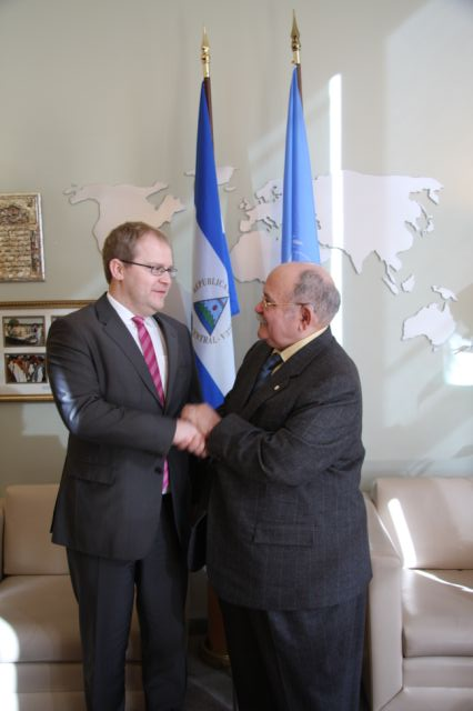 Foreign Minister Urmas Paet and President of the UN General Assembly Miguel d´Escoto Brockmann